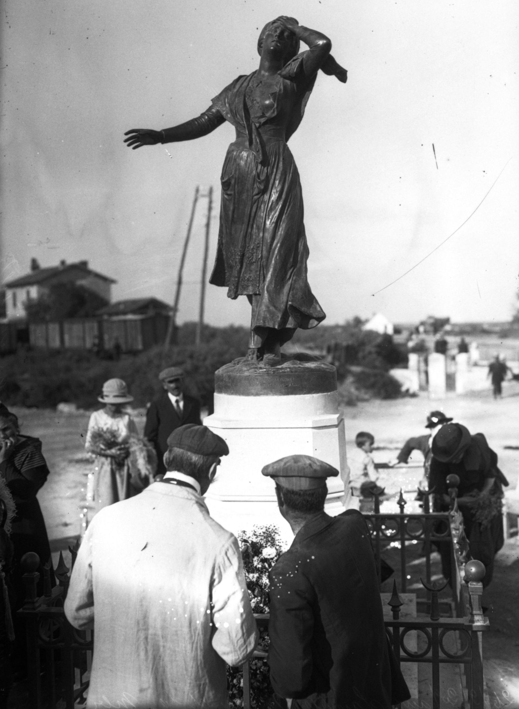 A statue representing Mirèlha is inaugurated in Lei Santas Marias (Provence)